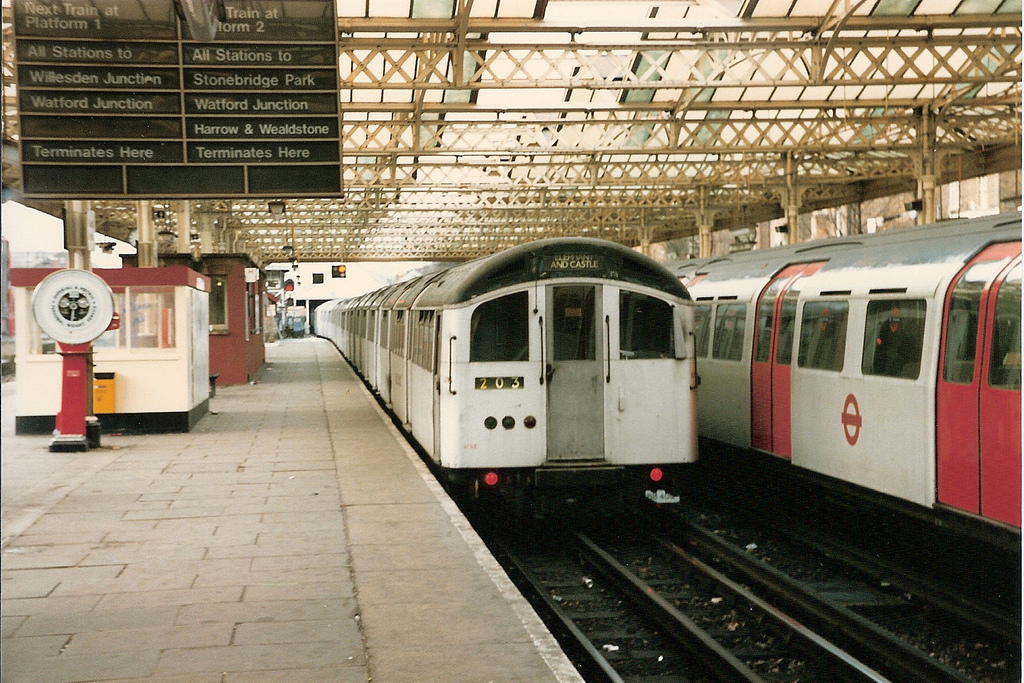 LT Bakerloo Line train at Queens Park, late December 1986 or early January 1987